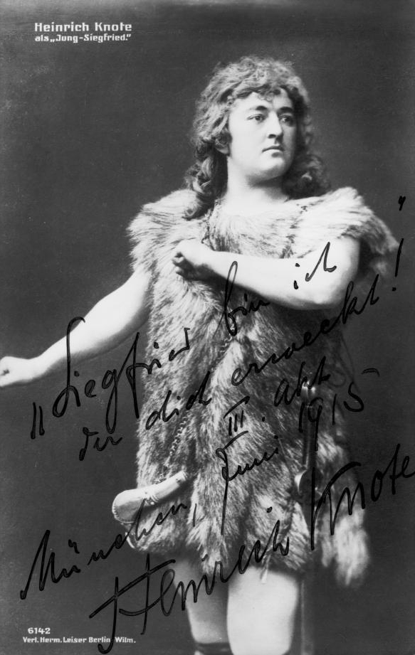 German operatic tenor Heinrich Knote (1870-1953) as Siegfied in Wagner's 'Siegfried' (signed by Knote in 1915)